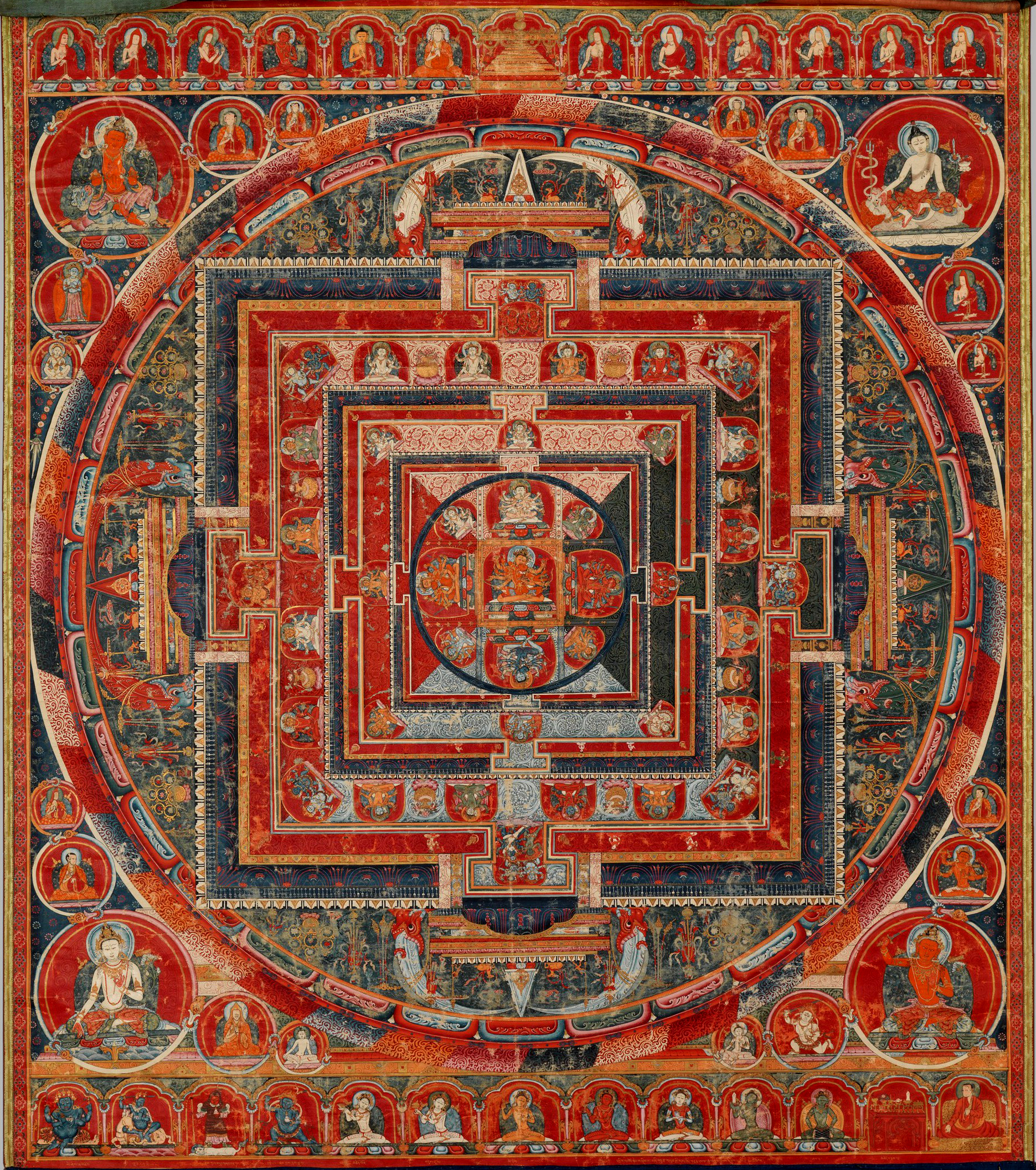 Mandala of the Forms of Manjushri, the Bodhisattva of Transcendent Wisdom, Tibet. At center sits Manjushri, the peaceful form of Manjuvajra, a bodhisattva who cuts through ignorance. He is golden, has three faces, and embraces his consort Prajna—iconography as prescribed in the Vajrayana text the Nishpanna Yogavali (Garland of Perfection Yoga). In the four directions are towers with floral motifs spewing from the mouths of makaras that together take the form of crossed vajras, denoting the stable axis upon which Manjushri sits. Rings of lotus petals, vajras, and fire mark the sacred space of the central palace. In the corners are images of Manjushri. Below are Taras and ferocious protectors, including Mahakala and Palden Lhamo as well as a monk who performs the consecration ritual for the mandala. The figural style and ornamental rendering suggest that a Nepalese artist painted this work for a Tibetan patron. Distemper on cloth, 33 1/16 x 29 1/8 in. (83.9 x 74 cm).